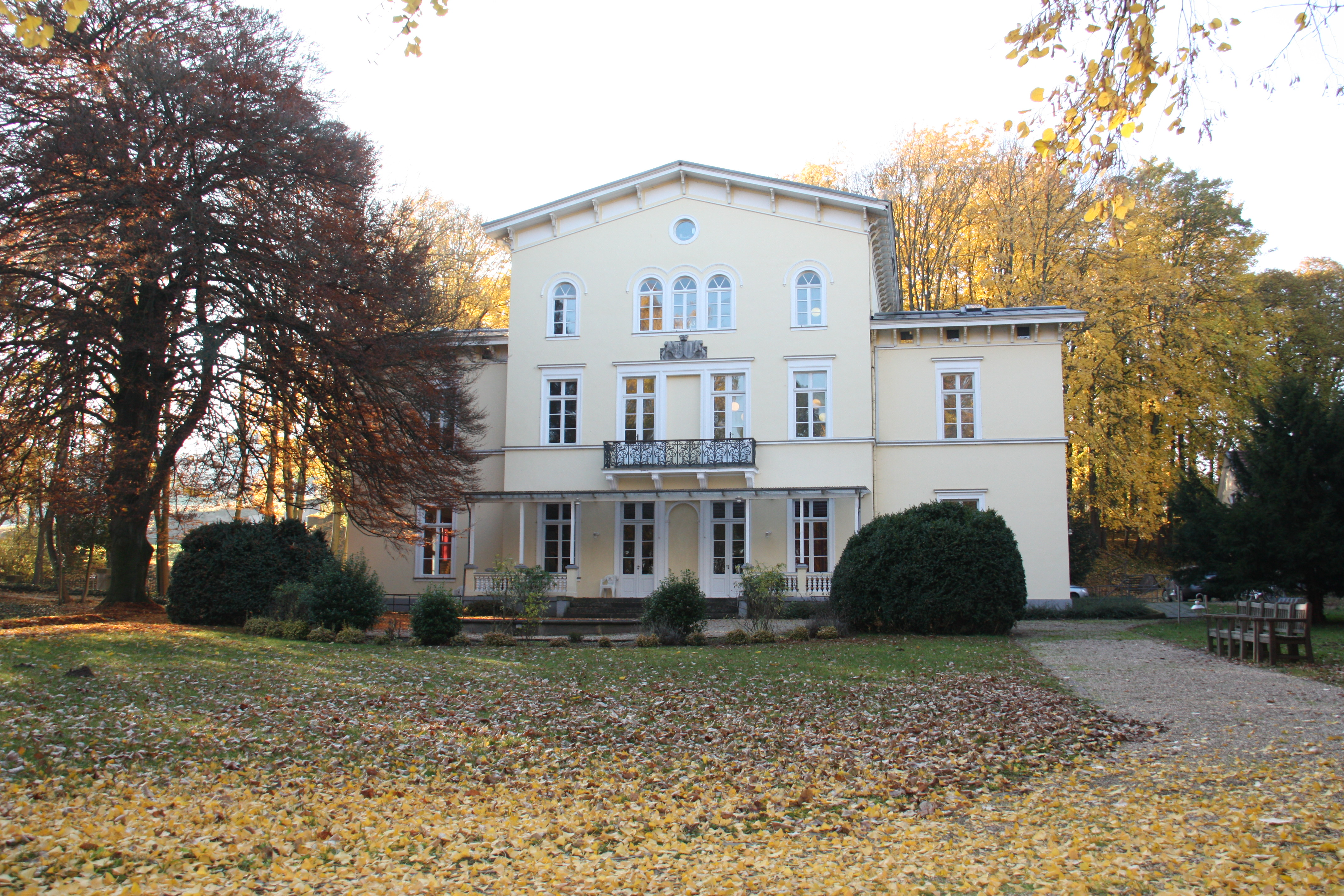 BSB Campus Haus Wittgenstein